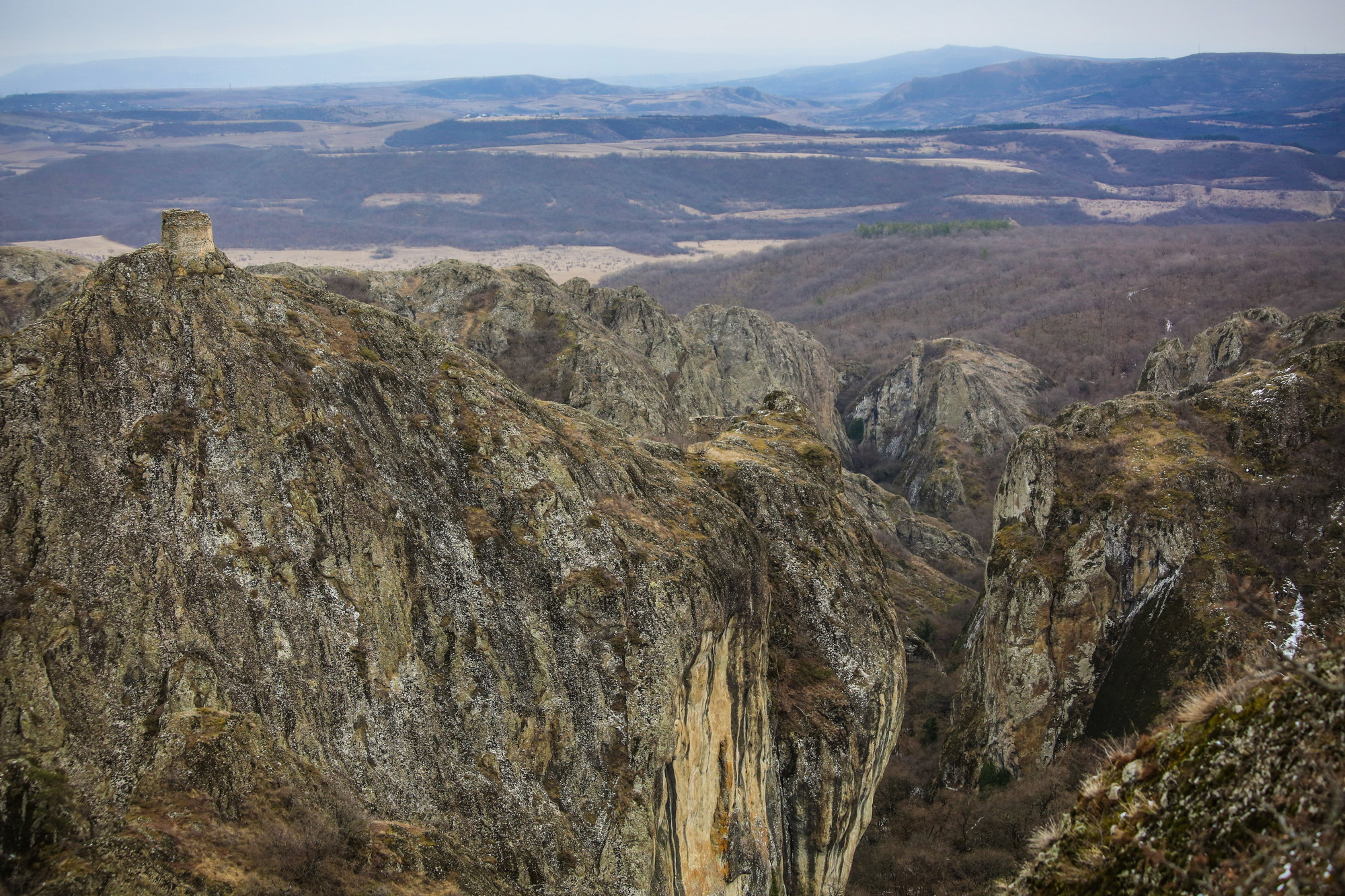 Birtvisi Natural Monument is a ruined medieval fortress in Kvemo Kartli, Georgia, nested within limestone cliffs in the Algeti river gorge. It is now within the boundaries of the Tetri-Tsqaro municipality, adjacent to the Algeti National Park, south-west of the nation's capital Tbilisi. Birtvisi is essentially a natural rocky fortress of 1 km², secured by walls and towers, the most prominent of which – known as Sheupovari ("Obstinate") – tops the tallest rock in the area. Various accessory structures, an aqueduct included, have also survived.[2] In written sources, Birtvisi is first mentioned as a possession of the Arab amir of Tiflis of which he was divested by the Georgian nobles Liparit, Duke of Kldekari and Ivane Abazasdze in 1038.[3] In medieval Georgia, Birtvisi entertained a reputation of an impregnable stronghold whose master could control the entire strategic Algeti gorge. The Turco-Mongol amir Timur notably reduced the fortress during one of his invasions of Georgia in 1403.[4] After the partition of the Kingdom of Georgia later in the 15th century, Birtvisi was within the borders of the Kingdom of Kartli and in possession of the princes Baratashvili.[2]